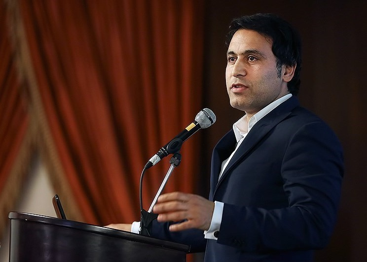 مهدوی کیا در همایش سلامت و زندگی